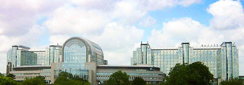 The building of the European Parliament in Brussels, Espace Léopold